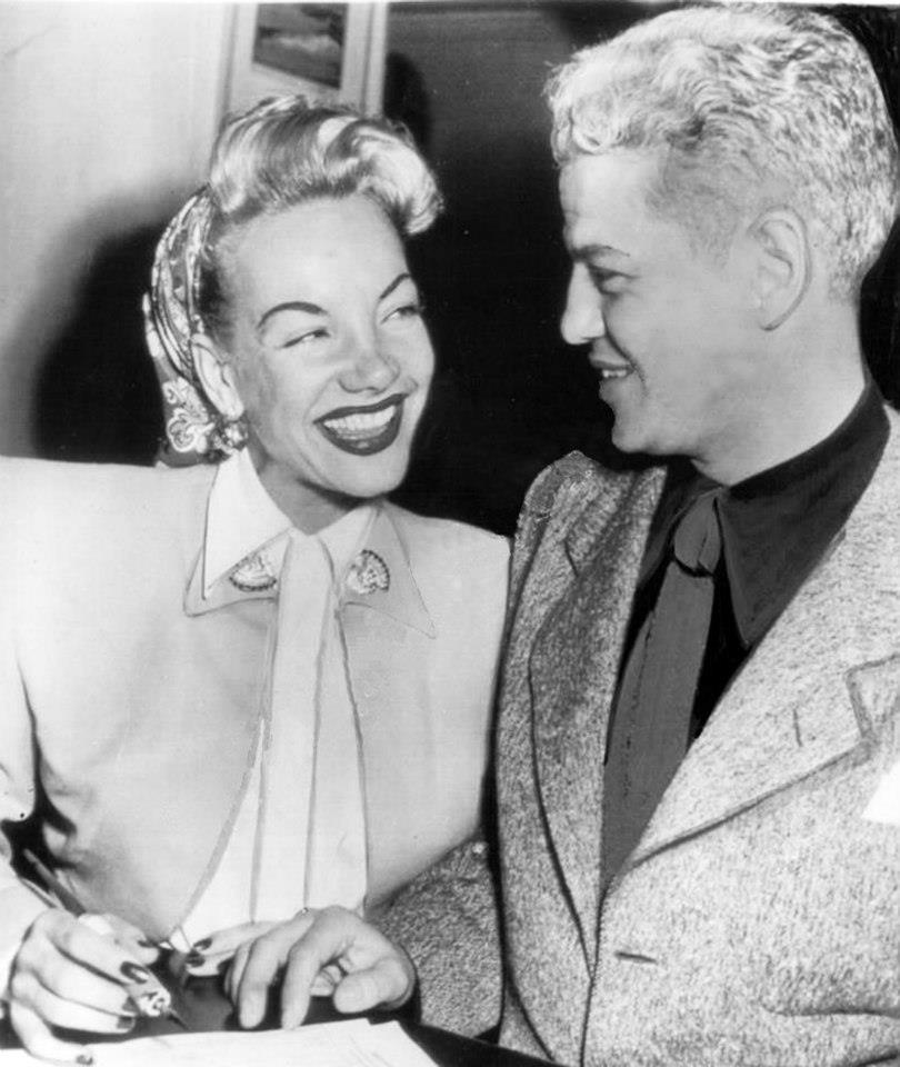 Carmen Miranda, the portuguese film actress, smiles as she and movie producer David Sebastian apply for a marriage license in Los Angeles. She gave her name as Maria de Carmen Miranda. They are now on their honeymoon.